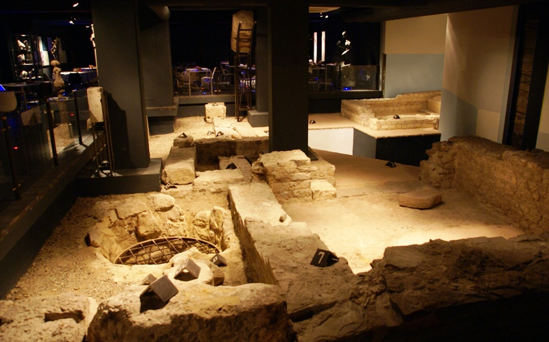 National monument 527161 - Museum Derlon, Plankstraat 21, Maastricht, The Netherlands